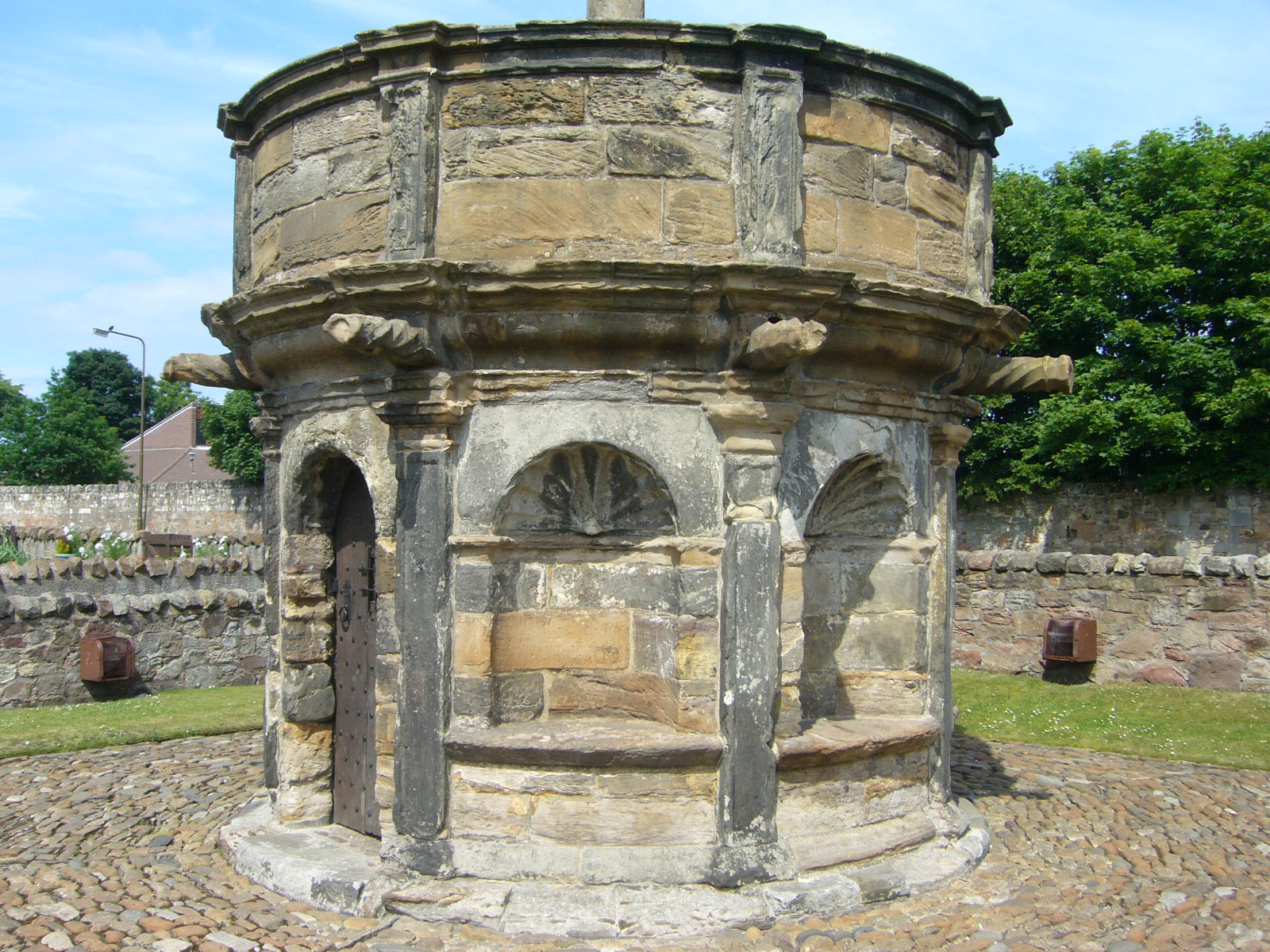 Cross-house at Prestonpans, East Lothian